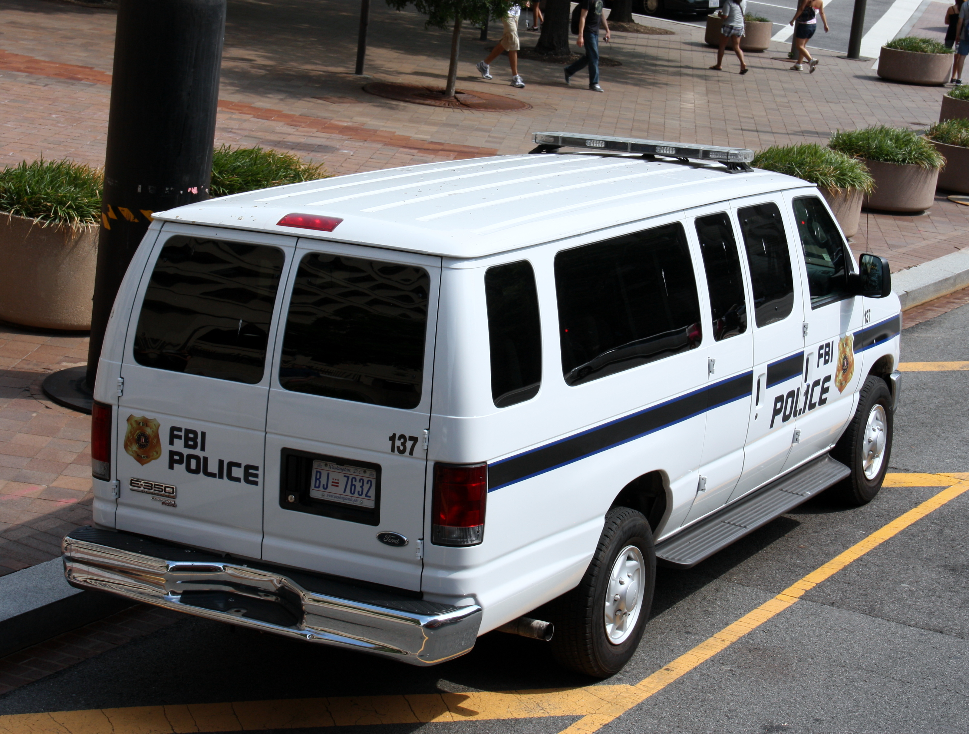 Federal Bureau of Investigation Police